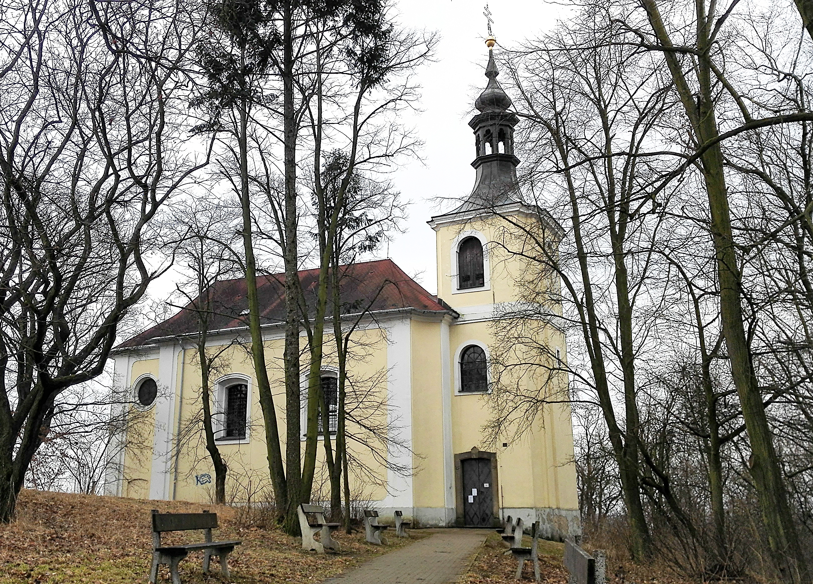 The Saint Jan of Nepomuk Church over Velká Chuchle (Prague, Czechia).